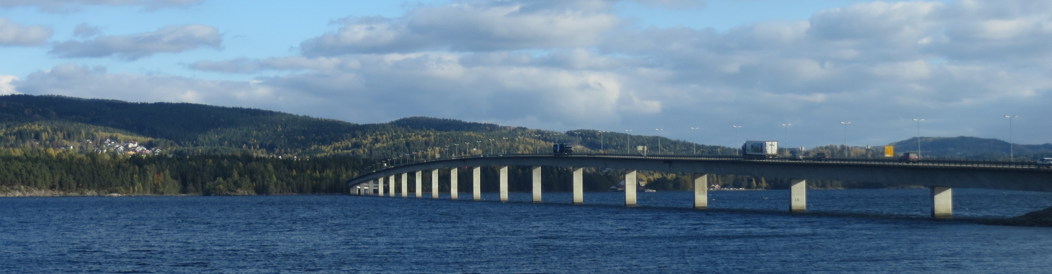 Image of the western part of Ringsaker municipality, at lake Mjøsa, seen from the western bank of the lake. Opland, Norway